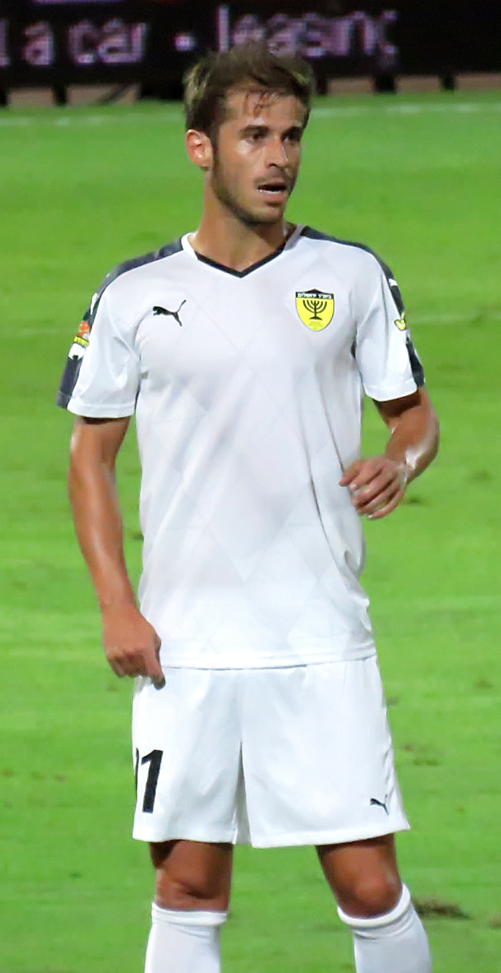 Bnei Yehuda Tel Aviv vs. Beitar Jerusalem - 19 September, 2015